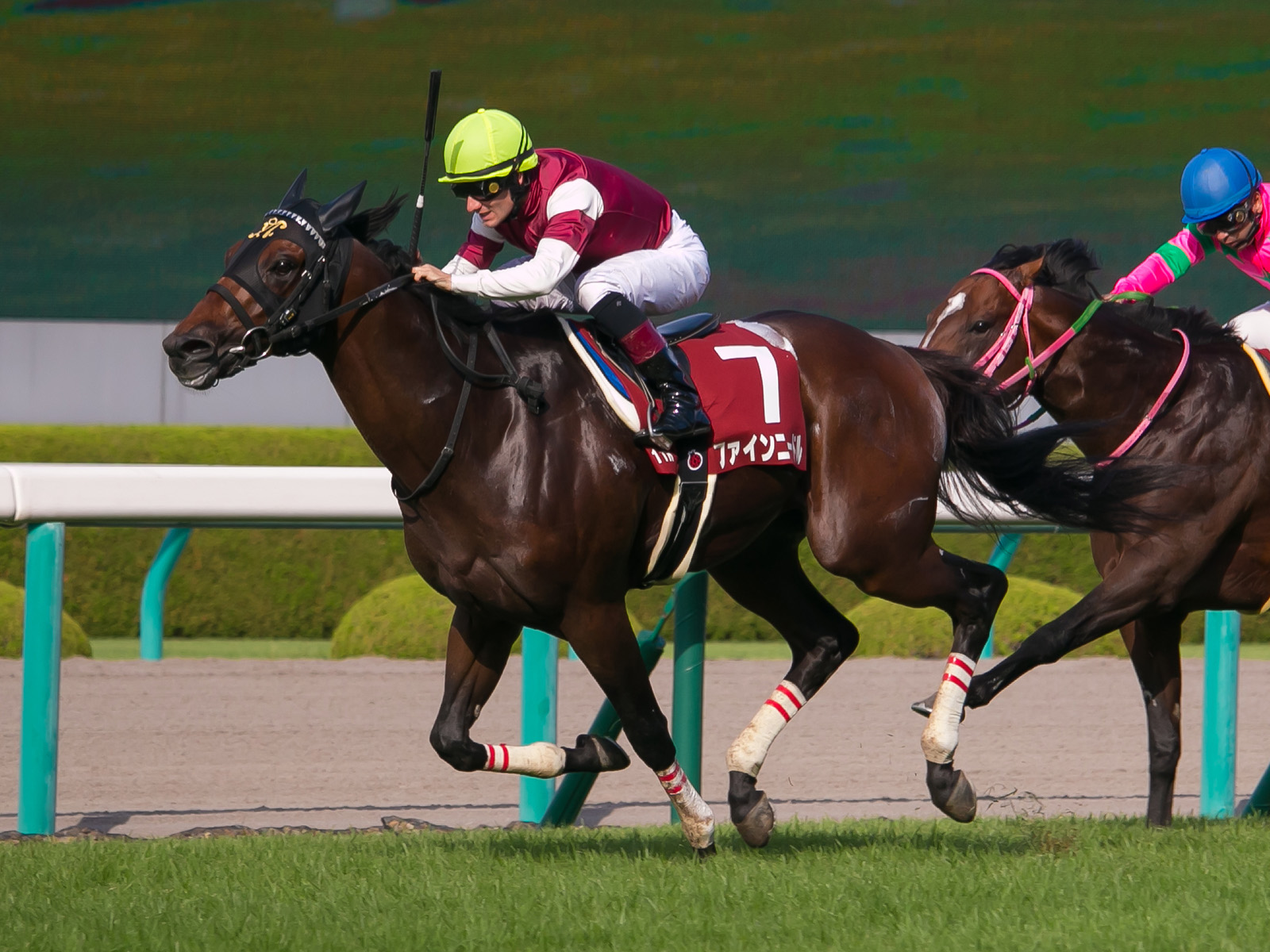 Fine Needle (Racehorse of Japan).